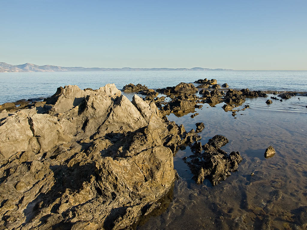 The rocks of Chios where Saint Markell once visited